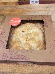 July 2, 2015 – Product Recall – Whole Foods Market's Southwest Region Recalls Cherry, Blackberry and Peach Pies in Four Stores Due to Undeclared Egg. For additional information, please refer to the company issued press release available on FDA’s web site at